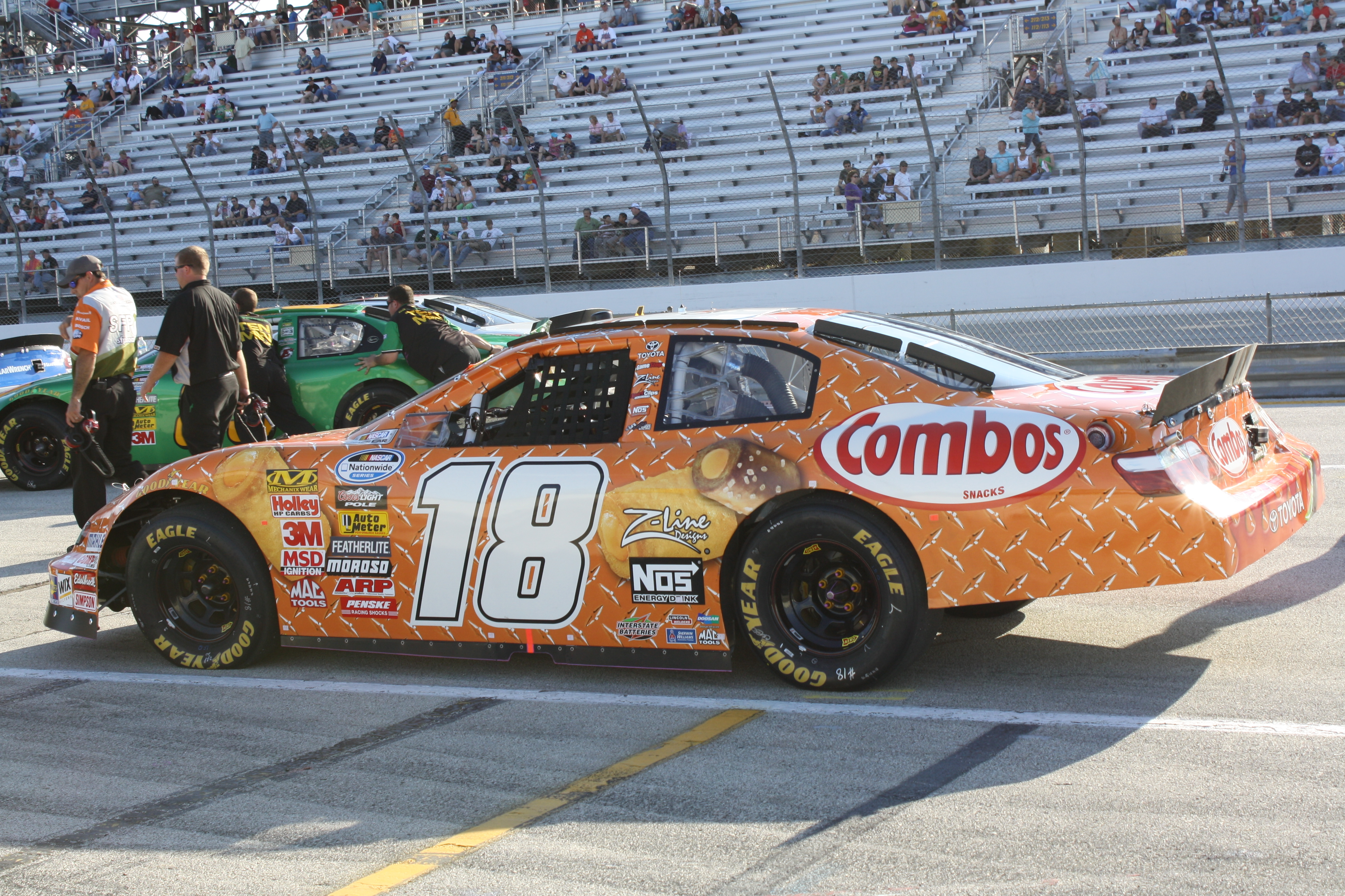 NASCAR driver Kyle Buschs Toyota at the 2009 Northern 250 Nationwide Series race at the Milwaukee Mile.